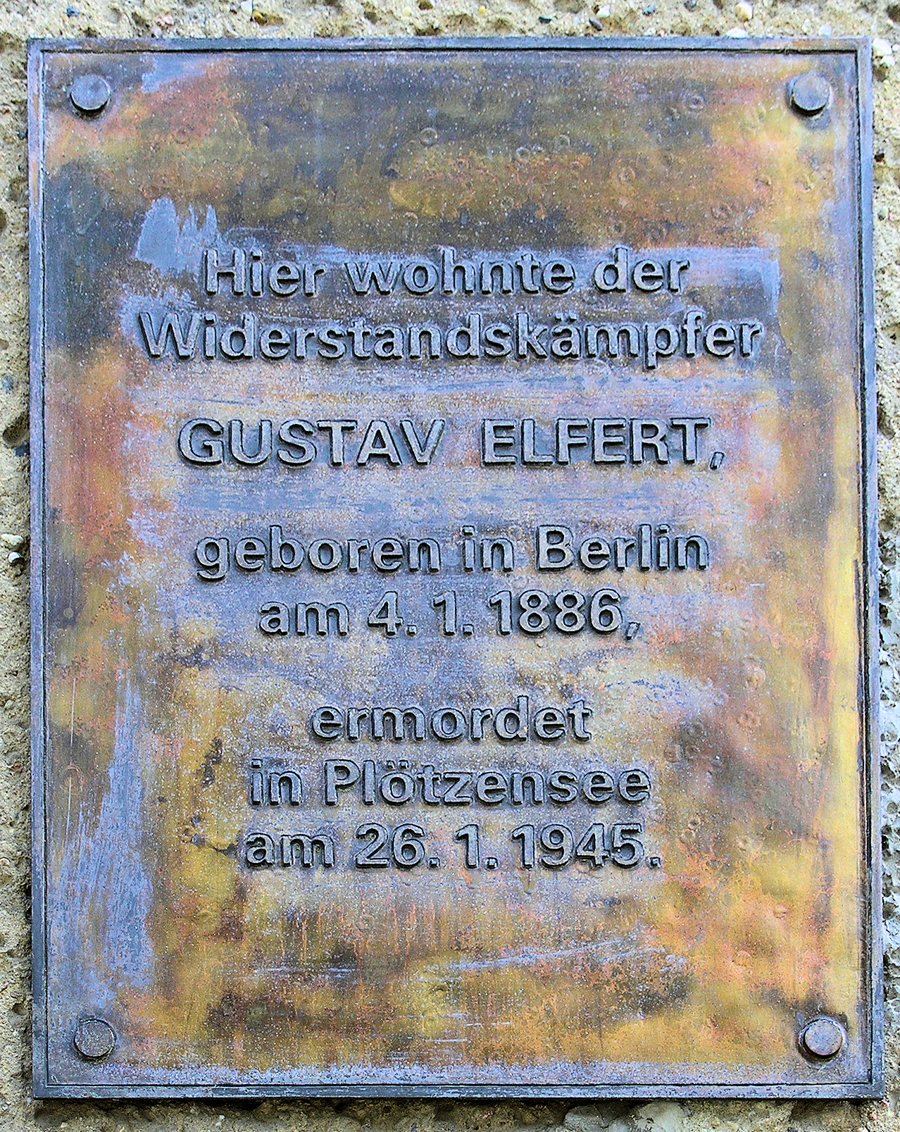 Memorial plaque, Gustav Elfert, Strelitzer Straße 10, Berlin-Gesundbrunnen, Germany Koordinate:52°32′5.2″N 13°23′44.2″E / 52.534778°N 13.395611°E